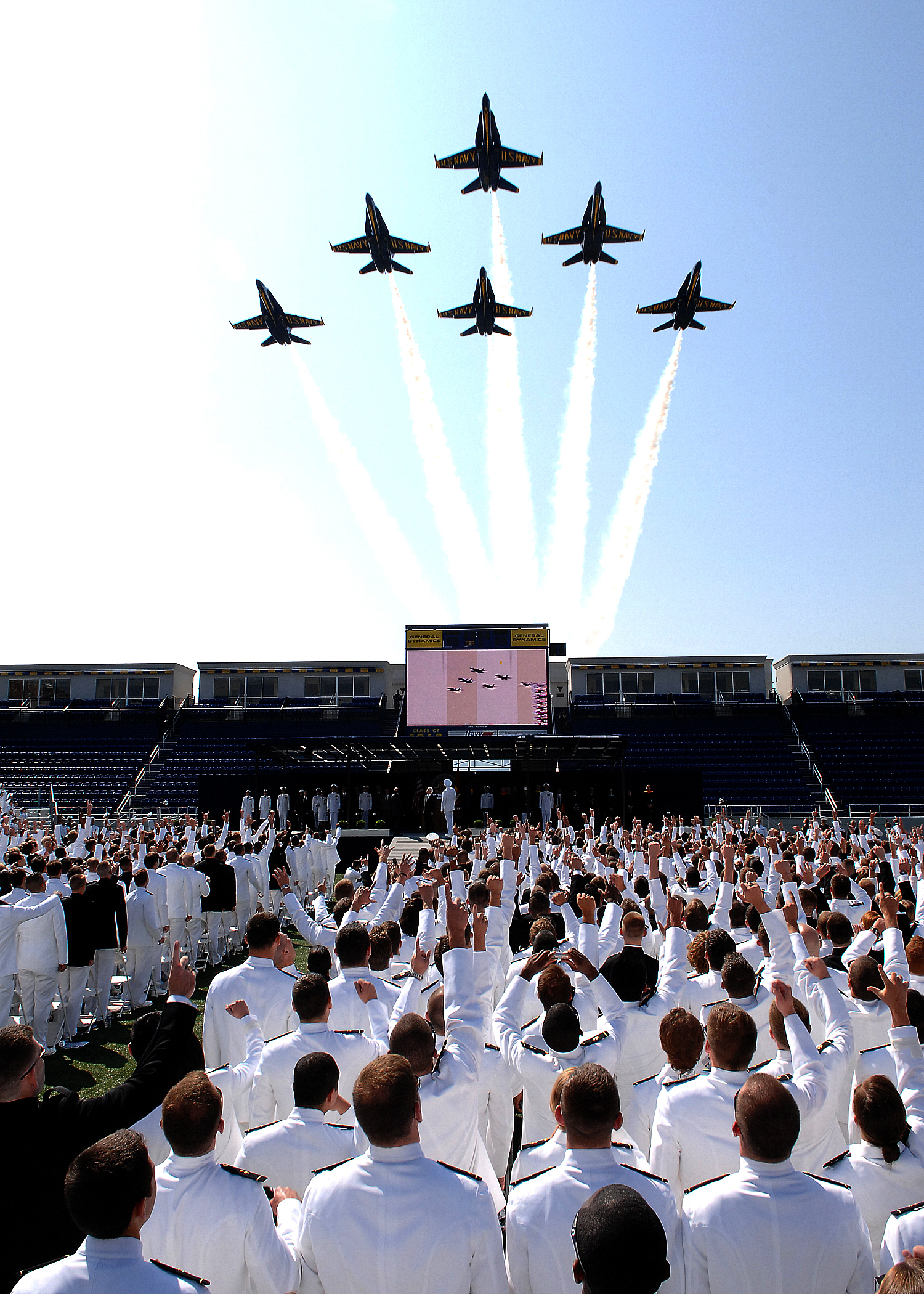 The U.S. Navy's "Blue Angels" fly over an estimated 27,000 guests and 1,028 midshipmen at the U.S. Naval Academy's Class of 2007 Graduation and Commissioning Ceremony at Navy-Marine Corps Memorial Stadium. Secretary of Defense the Honorable Dr. Robert M. Gates delivered the commencement address to the newest Navy ensigns and Marine Corps second lieutenants.